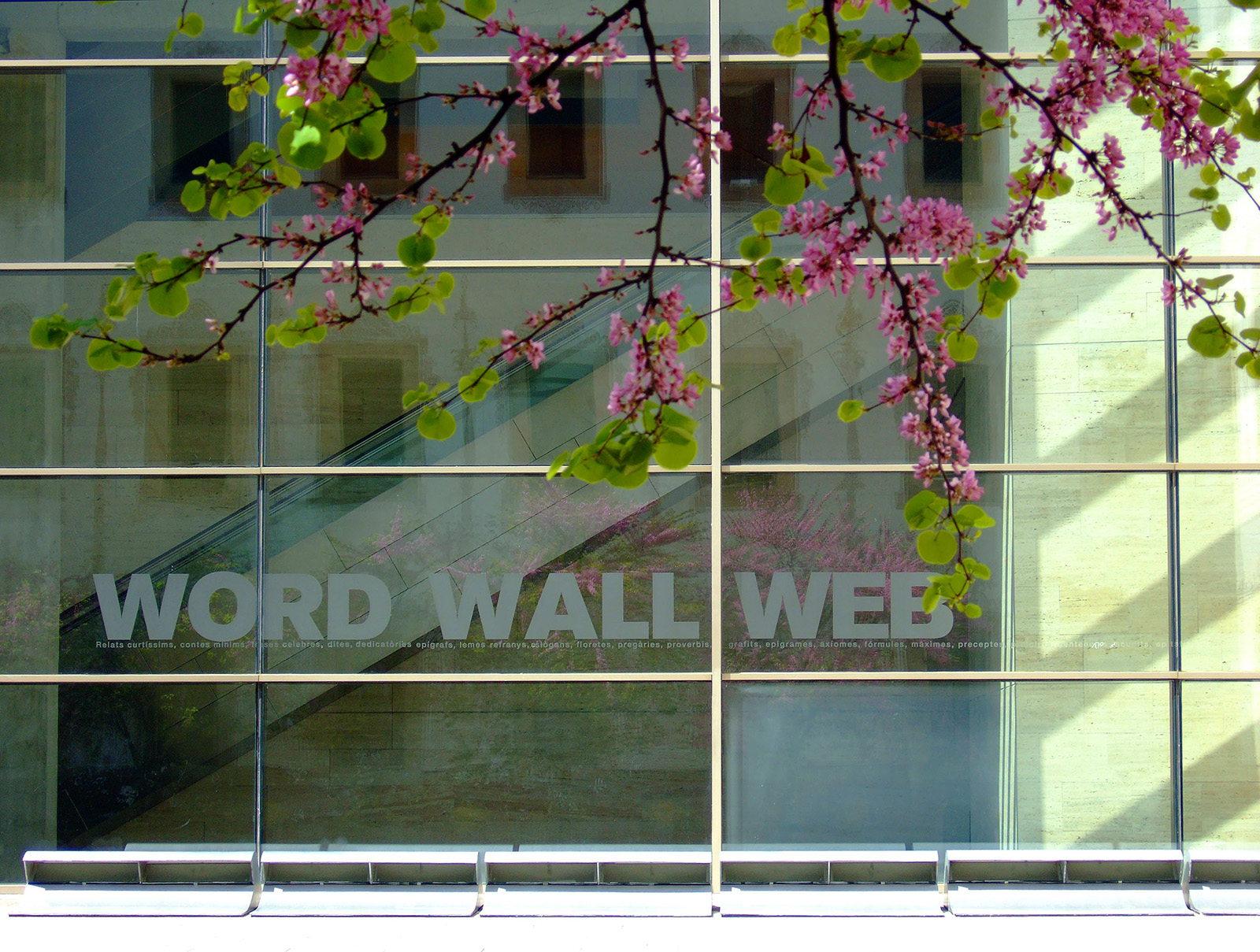 Centre de Cultura Contemporània de Barcelona (CCCB). Showing escalators within, and reflections of the older facade.